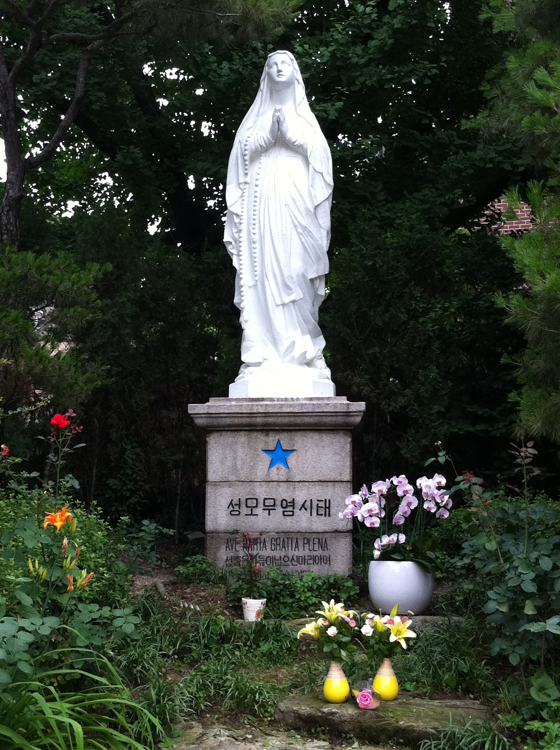 Cathedral Church of the Virgin Mary of the Immaculate Conception also is named Myeongdong Cathedral, 明洞聖堂, Seoul, South Korea